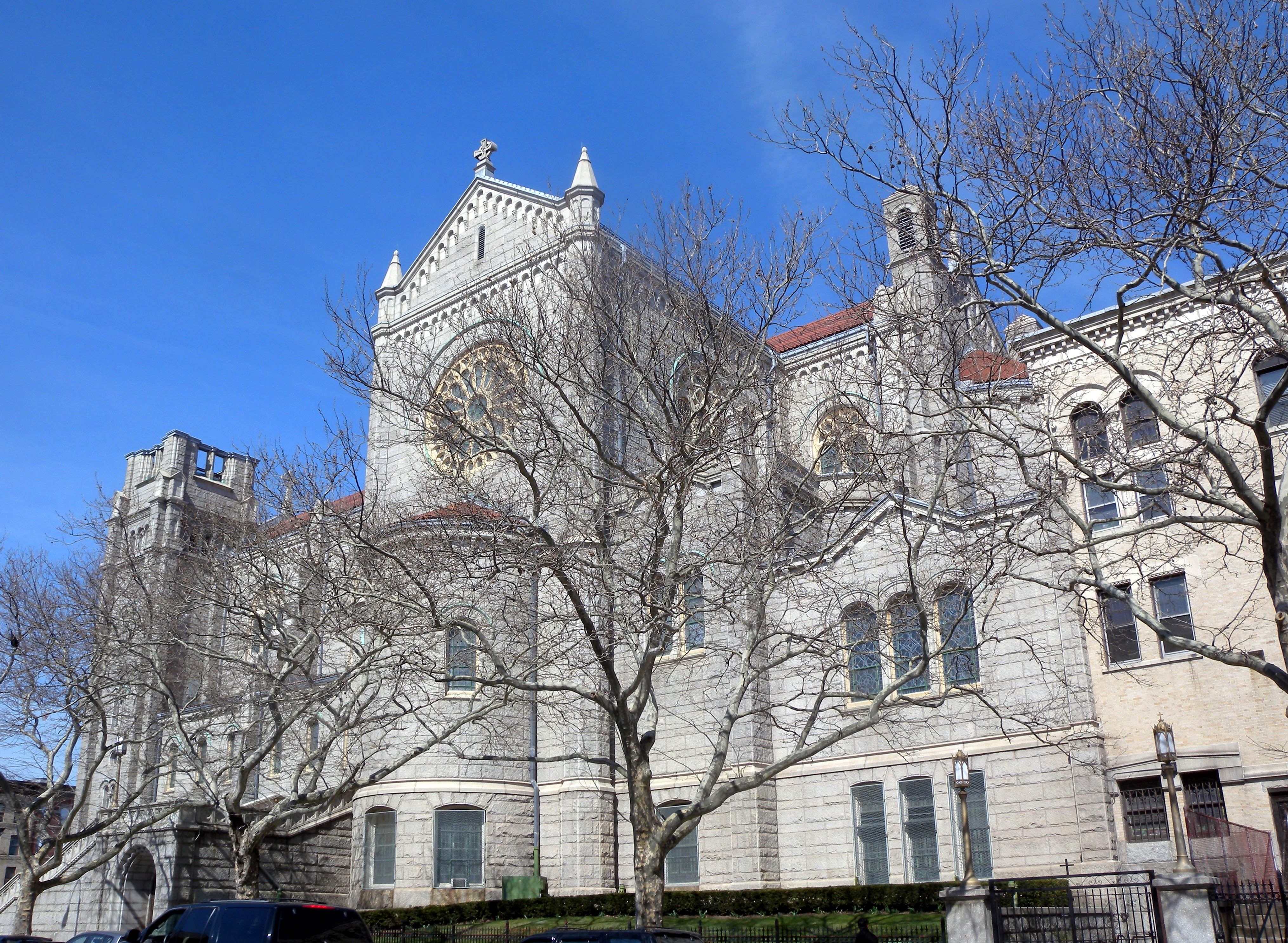 Looking north at OLPH on a sunny early afternoon.